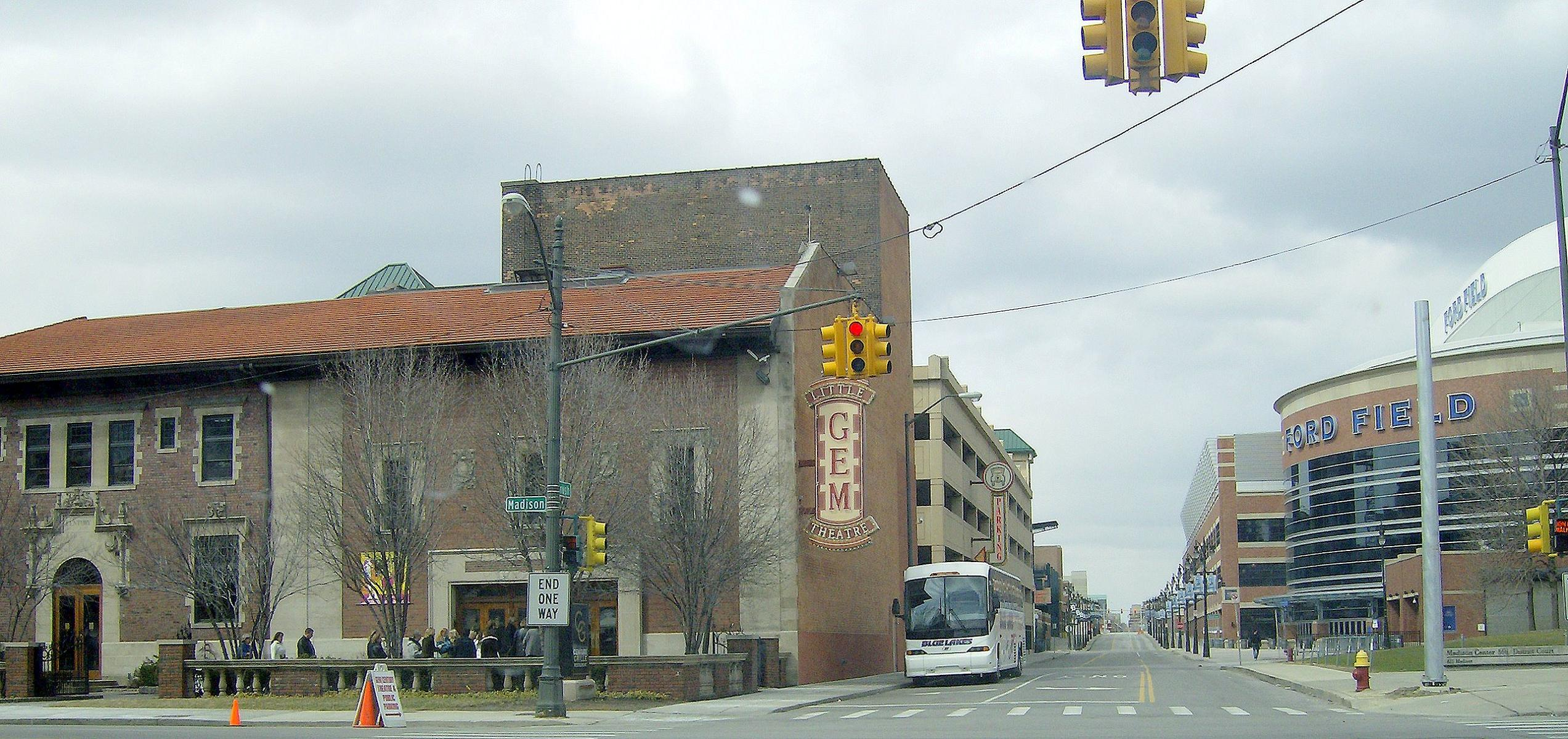 The Gem Theatre in Detroit, Michigan, United States, along with the adjacent Century Building, is listed on the US National Register of Historic Places (NRHP), under their historic name of Century Building and Little Theater.NRHP reference number 85000993